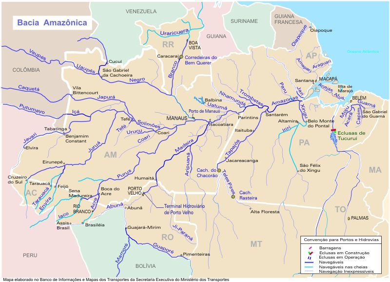 Map showing the Amazonas watershed